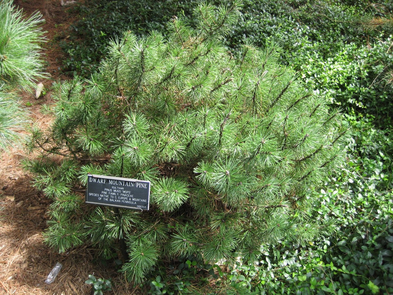 Pinus mugo. Photographed at Brooklyn Botanic Garden (New York) in September